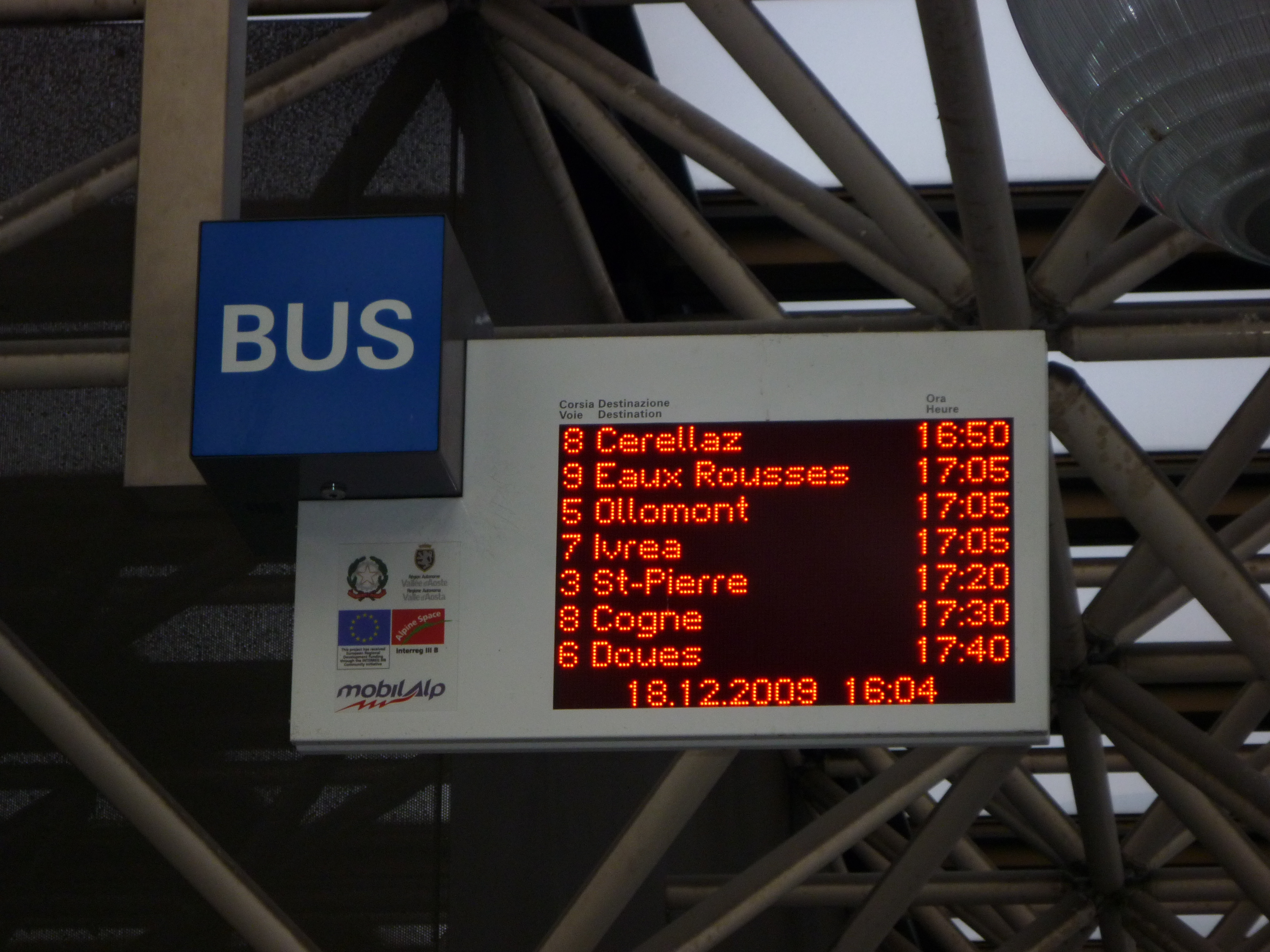 Timetable Carrel parking in Aosta/Aoste (Italy)